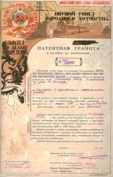 Petr Bekhterev patent on parachute